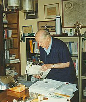 Jerzy Giedroyc (1906-2000) editor-in-chief of "Kultura" (Maisons-Laffitte, France)